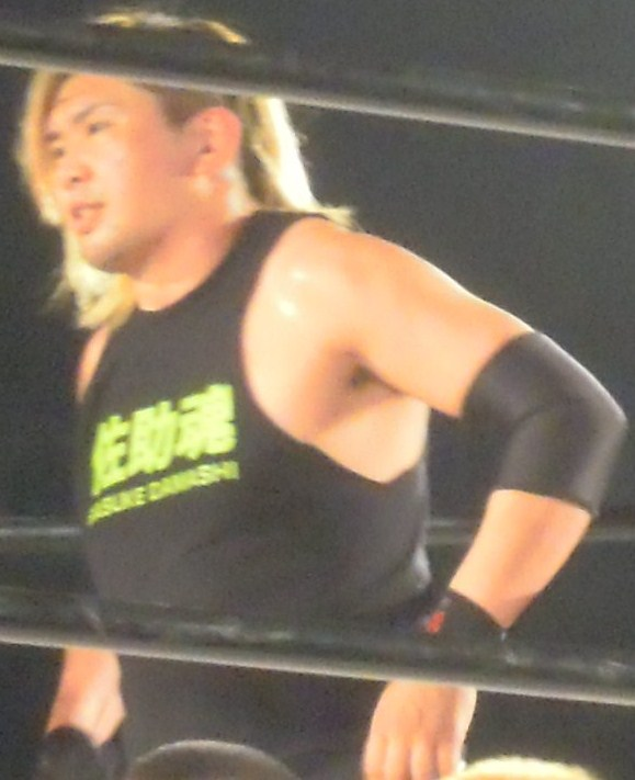 Japanese professional wrestler,Minoru Fujita.BJW May 4 2010 Yokohama Cultural Gymnasium.